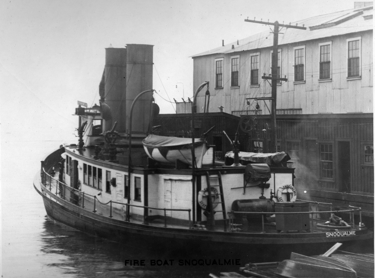 Fireboat Snoqualmie docked on the Central Waterfront, Seattle, Washington, U.S., 1920 Item 77201, Clerk File 82632 (Record Series 1802-01), Seattle Municipal Archives.